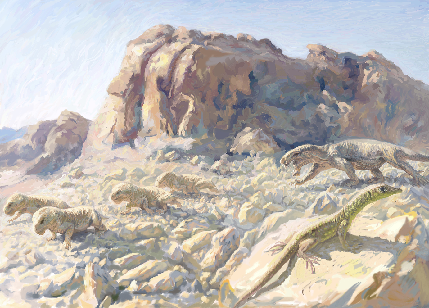 Late Permian of Tanzania at the time of deposition of the Usili Formation. Life restoration of Aenigmastropheus parringtoni (foreground), and herd of the dicynodont Endothiodon being pursued by a gorgonopsian. All these vertebrates were found together at the type locality of Aenigmastropheus parringtoni (locality B35).